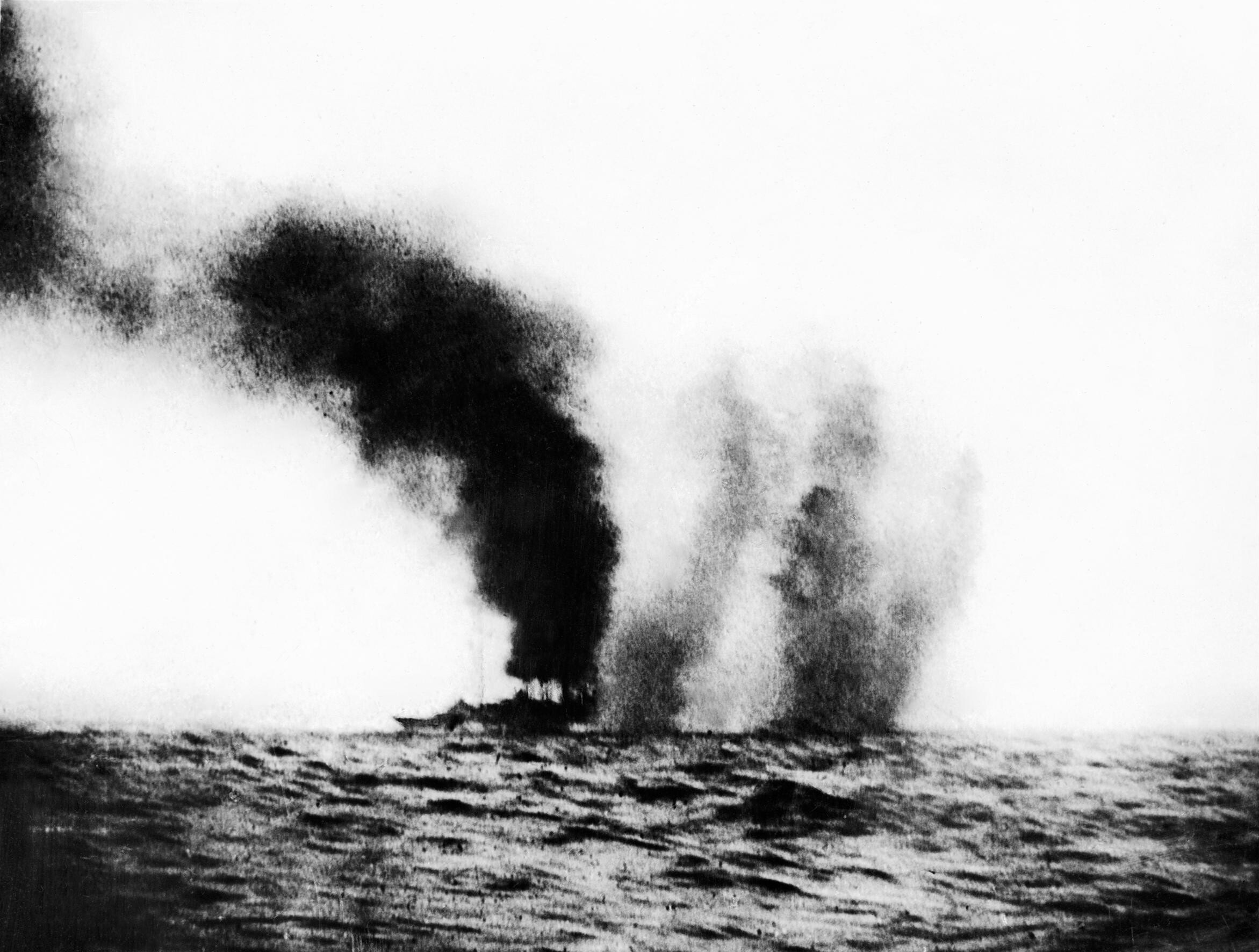 IWM caption : Battle of Jutland 1916. In the distance the light cruiser HMS BIRMINGHAM can be see under fire from the German High Seas Fleet. She suffered only splinter damage.